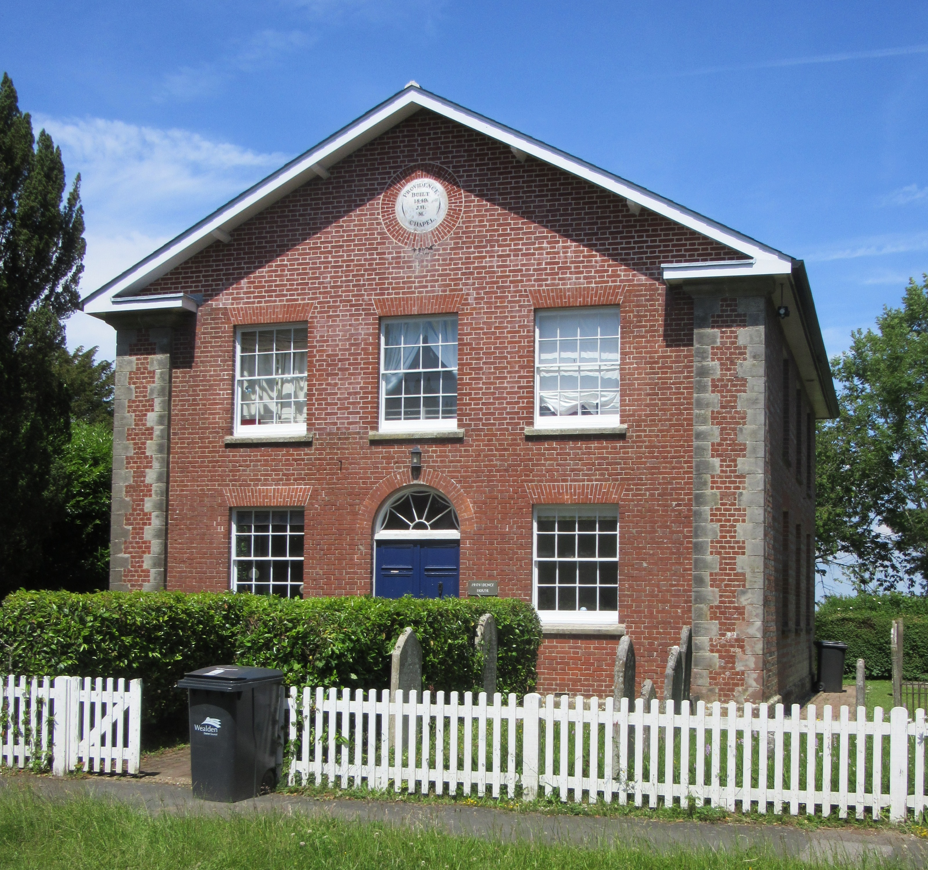 The former Providence Chapel, Main Road, Hadlow Down, Wealden District, East Sussex, England. This Grade II-listed former Calvinistic Baptist chapel of 1849 (replacing an earlier building of 1824) is now a house.